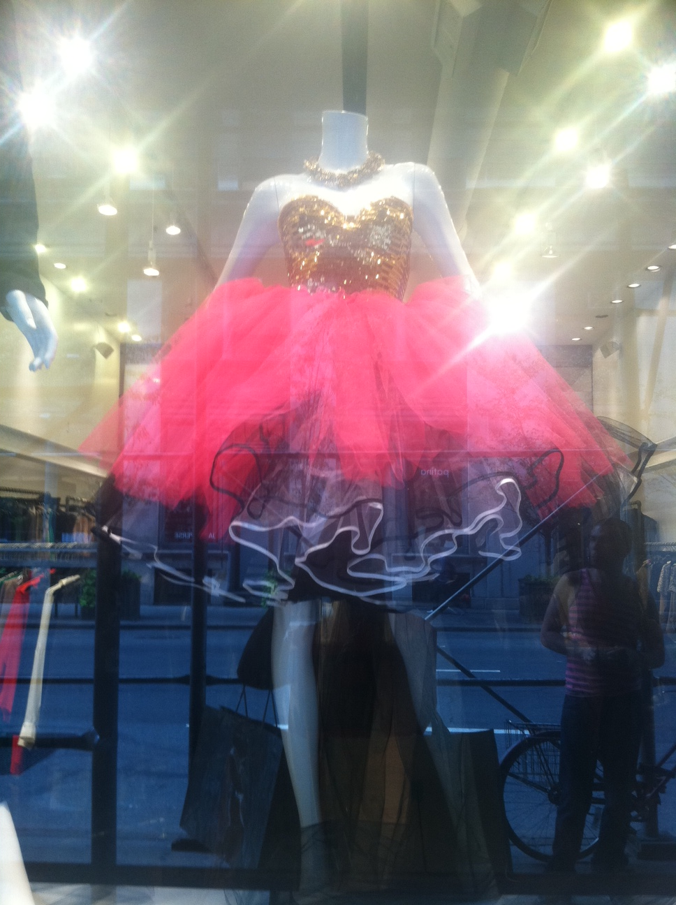 Infamous sequin corset and handmade tutu by the fashion brand Tumbler and Tipsy by Michael Kuluva displayed at the boutique 3 NY in New York City, NY.